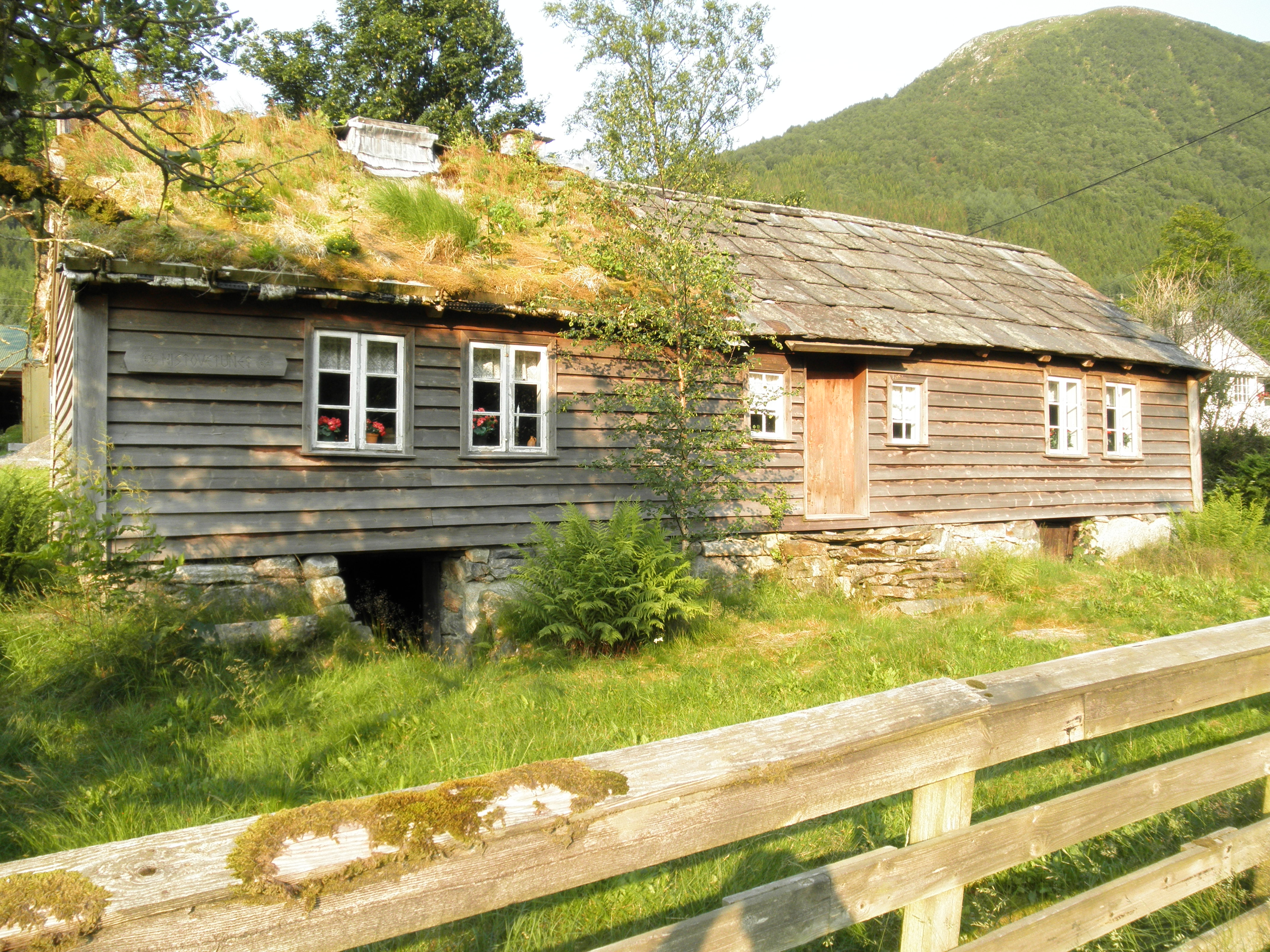 Nistovetunet in Omvikdalen, Kvinnherad, Norway